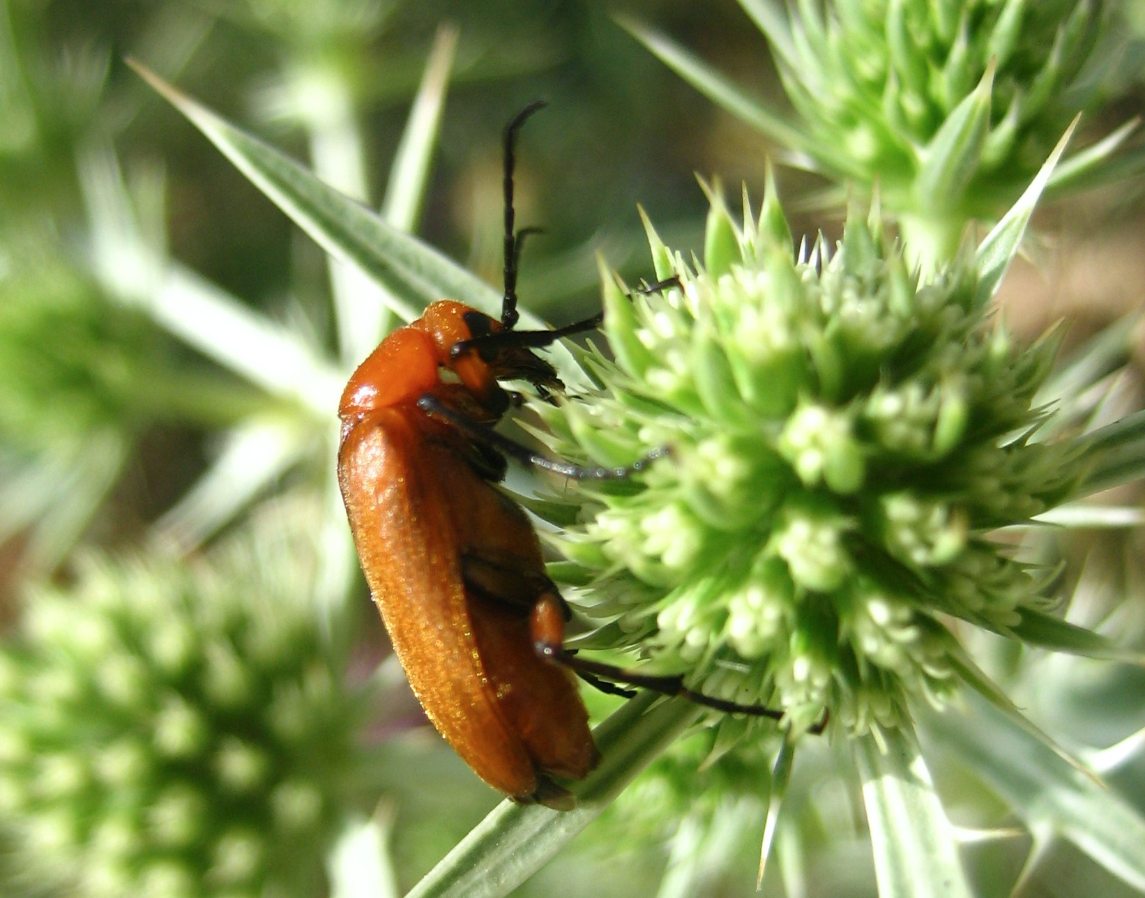 Zonitis flava (Coleoptera: Meloidae on Eryngium campestre, Teruel, Spain